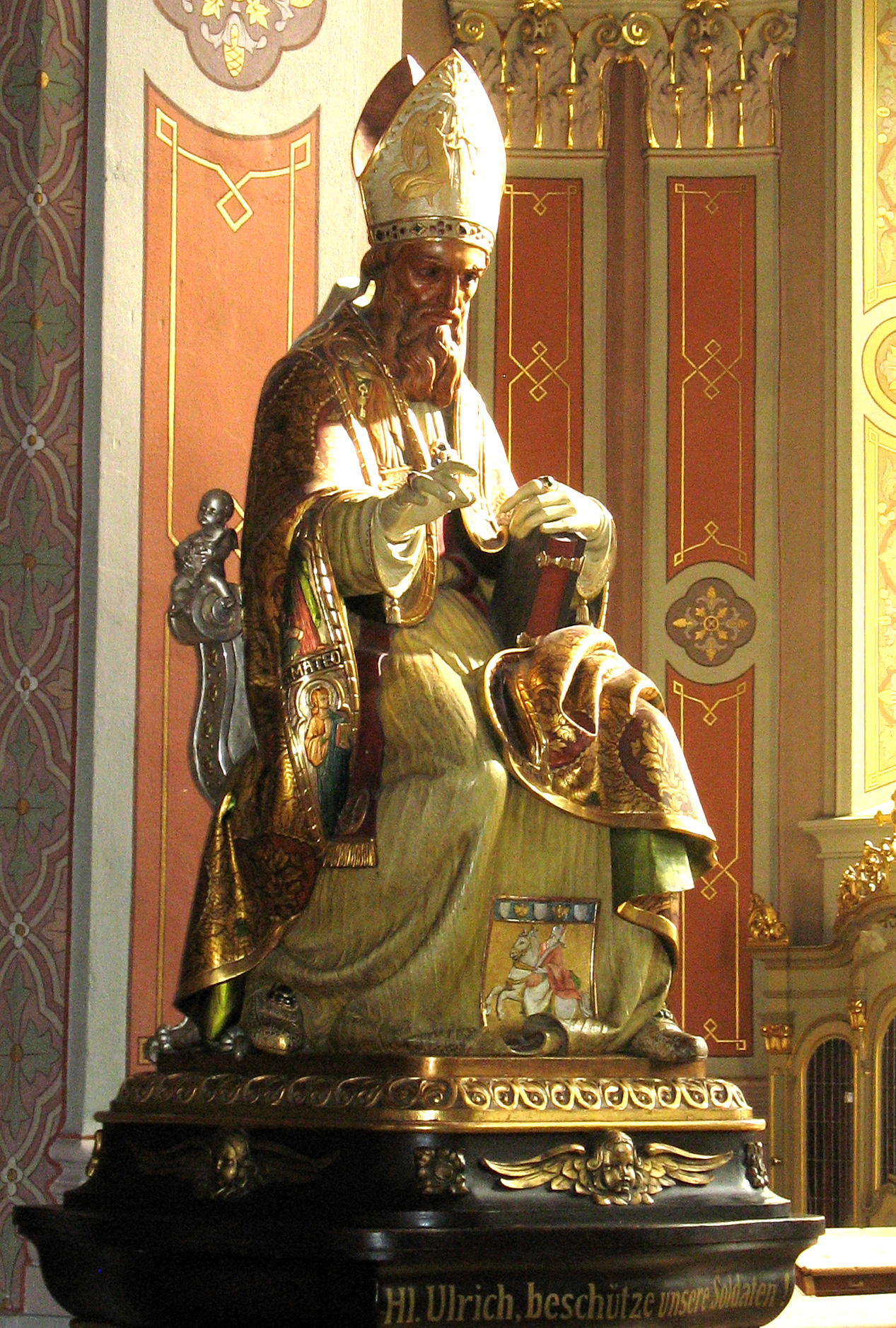 From the parish church of St. Ulrich in Gröden - Ortisei Val Gardena - Sculptor Ludwig Moroder